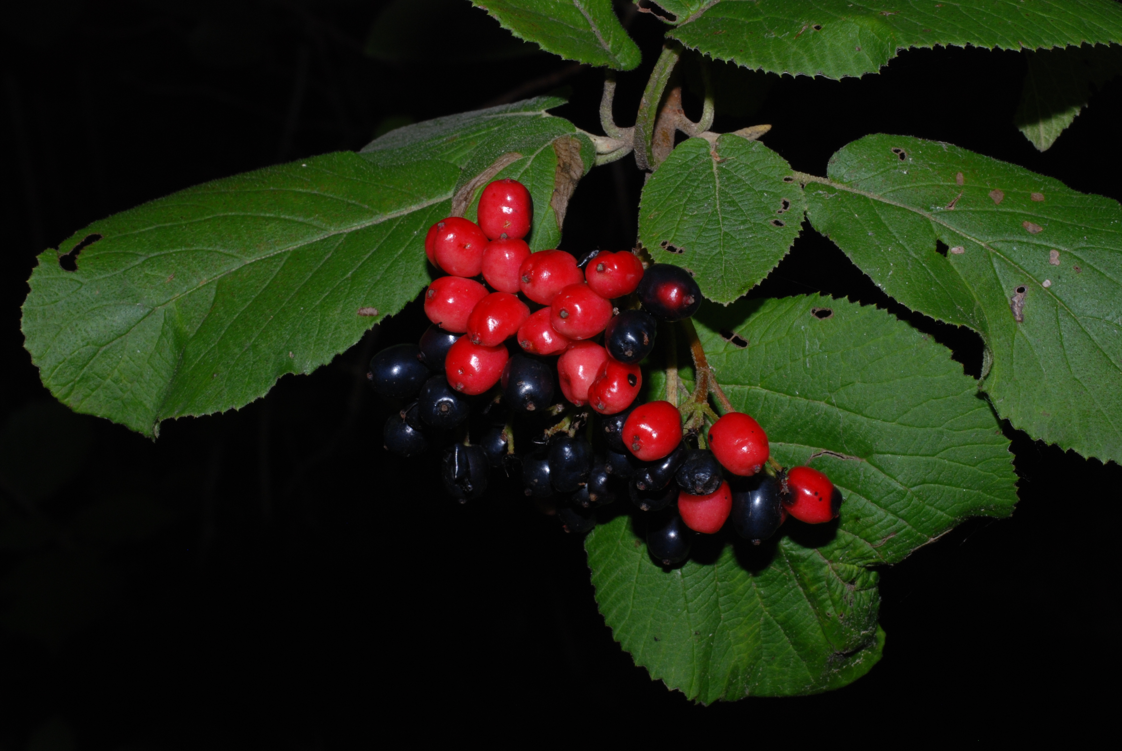 Viburnum lantana fruits; near Wels, Austria